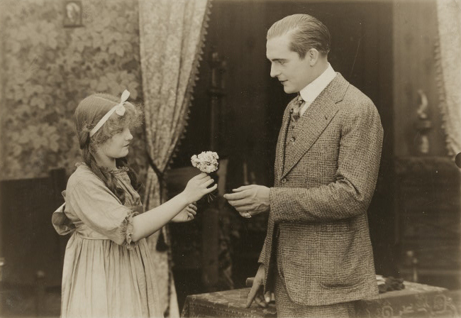 Dorothy Gish in Old Heidelberg (1915). Source: Billy Rose Theatre Collection photograph file / Productions / Old Heidelberg (Cinema 1915) (more info) Digital ID: TH-41461 Repository: The New York Public Library. The New York Public Library for the Performing Arts. Billy Rose Theatre Division. See more information about this image and others at NYPL Digital Gallery. Persistent URL: Rights Info: No known copyright restrictions; may be subject to third party rights (for more information, click here)